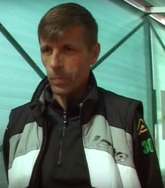 Valentin Bădoi, football player from Romania